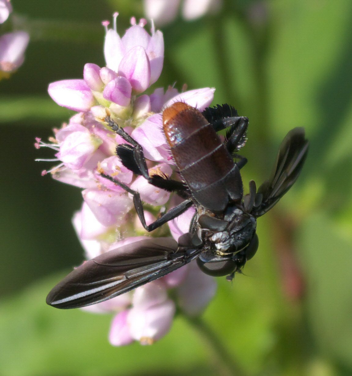 Trichopoda lanipes, Genus: Feather-legged Flies, ID Confidence: 98